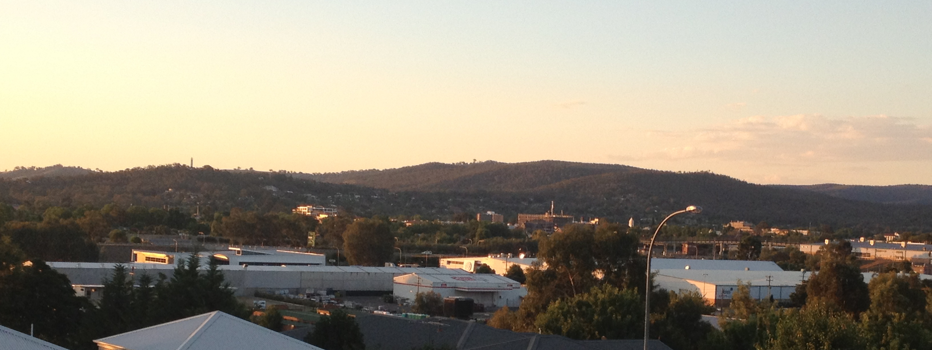 Albury skyline at sunset